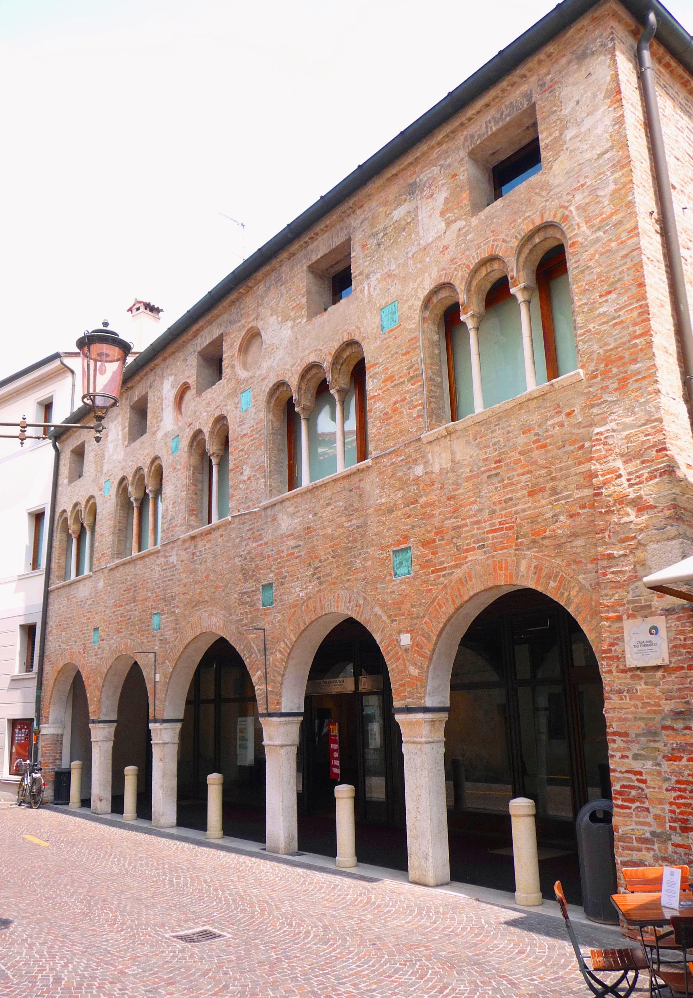 Facade of Ca dei Carraresi in Treviso (IT)